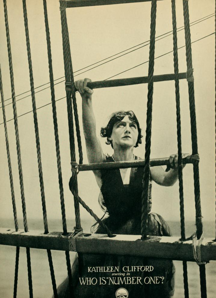 Advertisement inMoving Picture World, Nov 1917 for the American film serial Who Is Number One? (1917) with Kathleen Clifford.